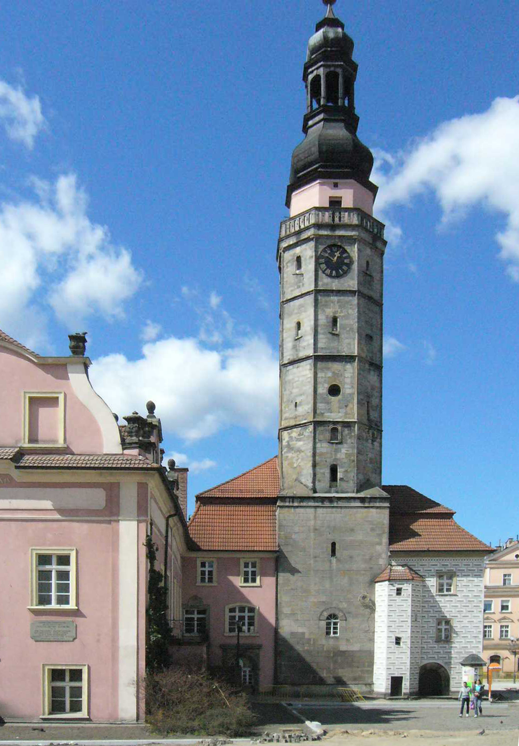 Bolesławiec, townholl with tower, sight from ost side